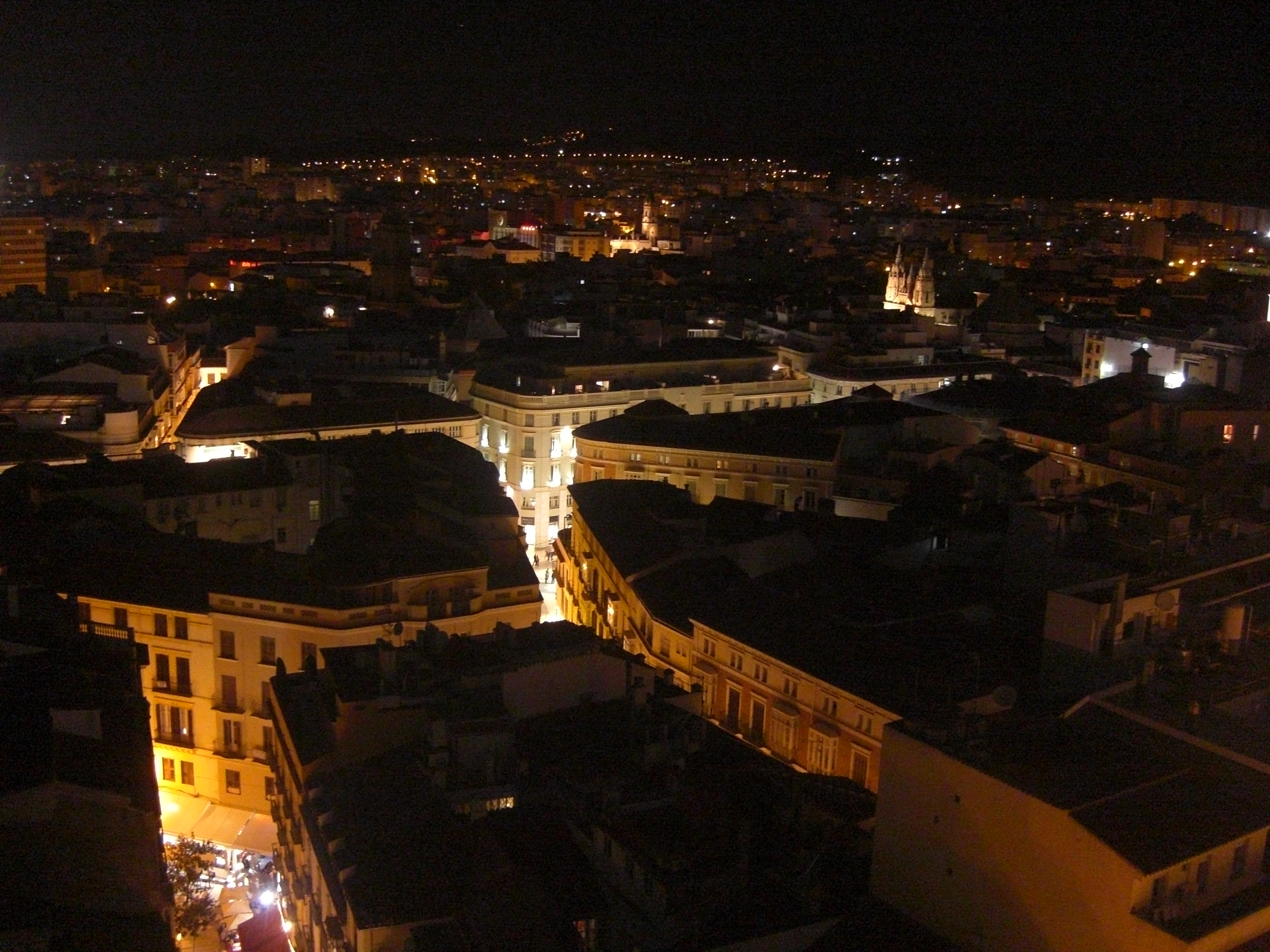 Malaga at night, Spain.